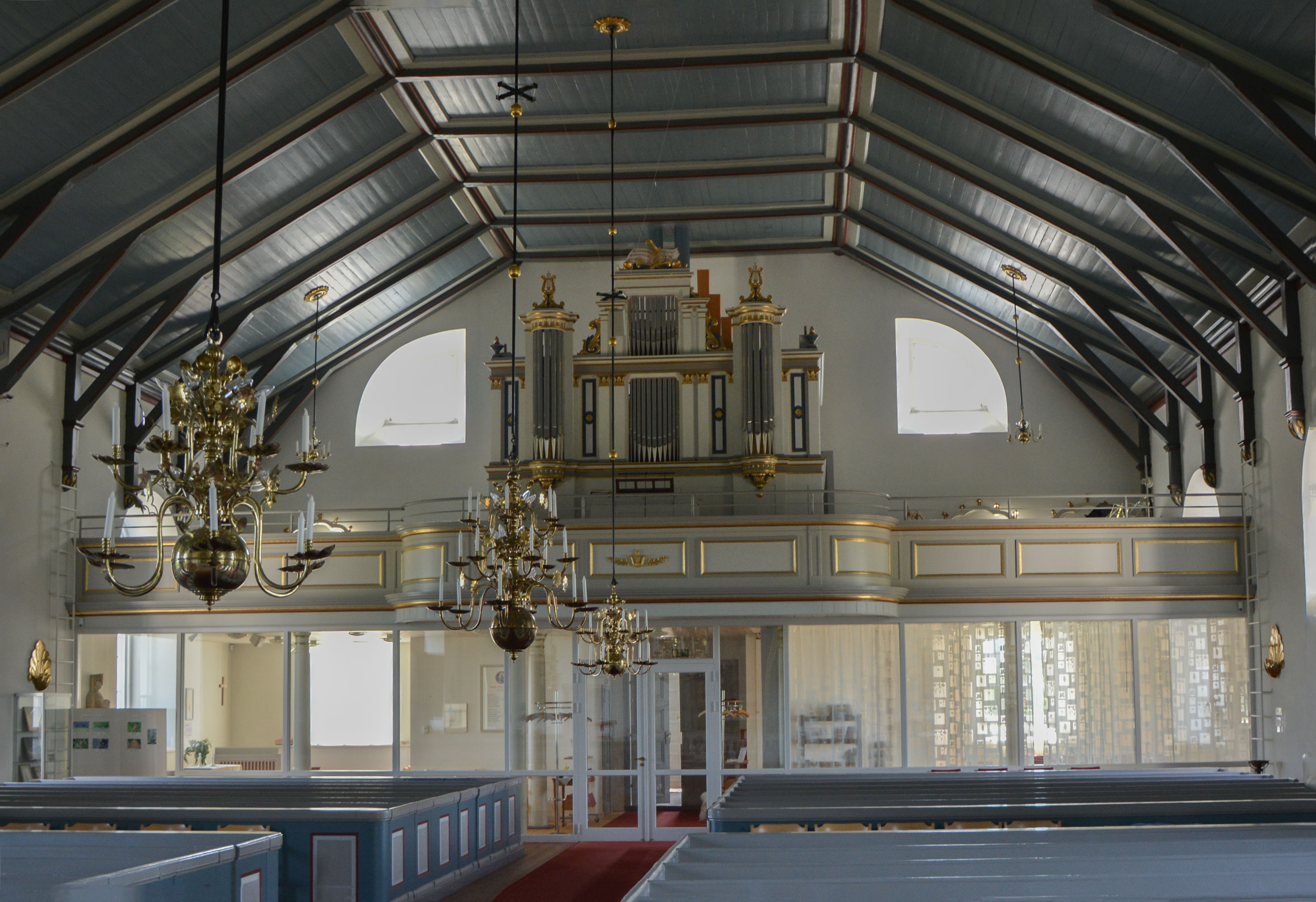 Tolg Church. The organ